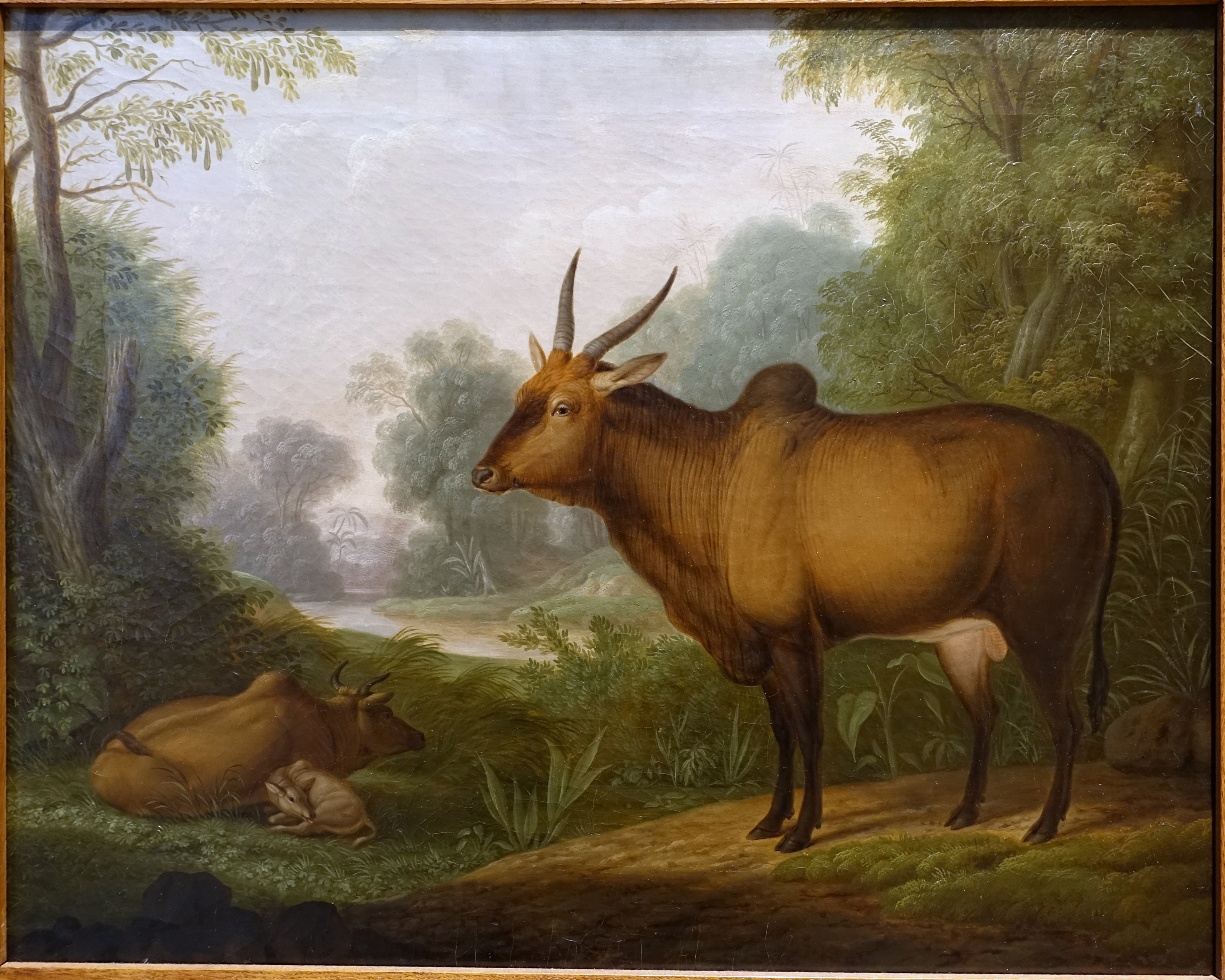 Exhibit in the Hessisches Landesmuseum Darmstadt - Darmstadt, Germany.